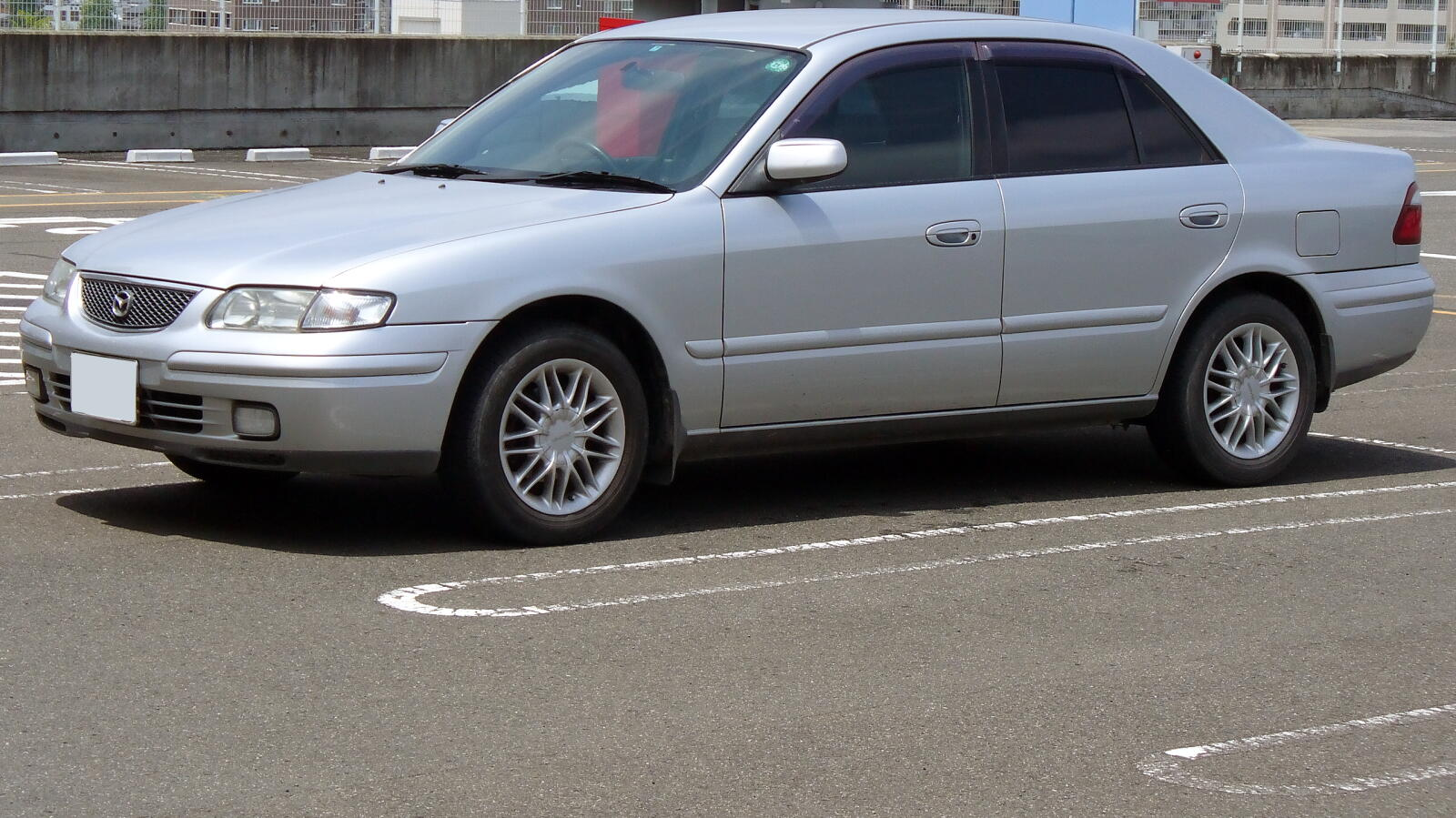 Mazda_Capella_sedan (1997-1999,Japanese spec)